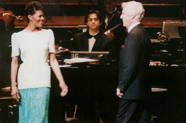 Dionne Warwick, Rob (Shrock) Shirakbari, Burt Bacharach performing at Meyerson Auditorium, Dallas TX 1995.